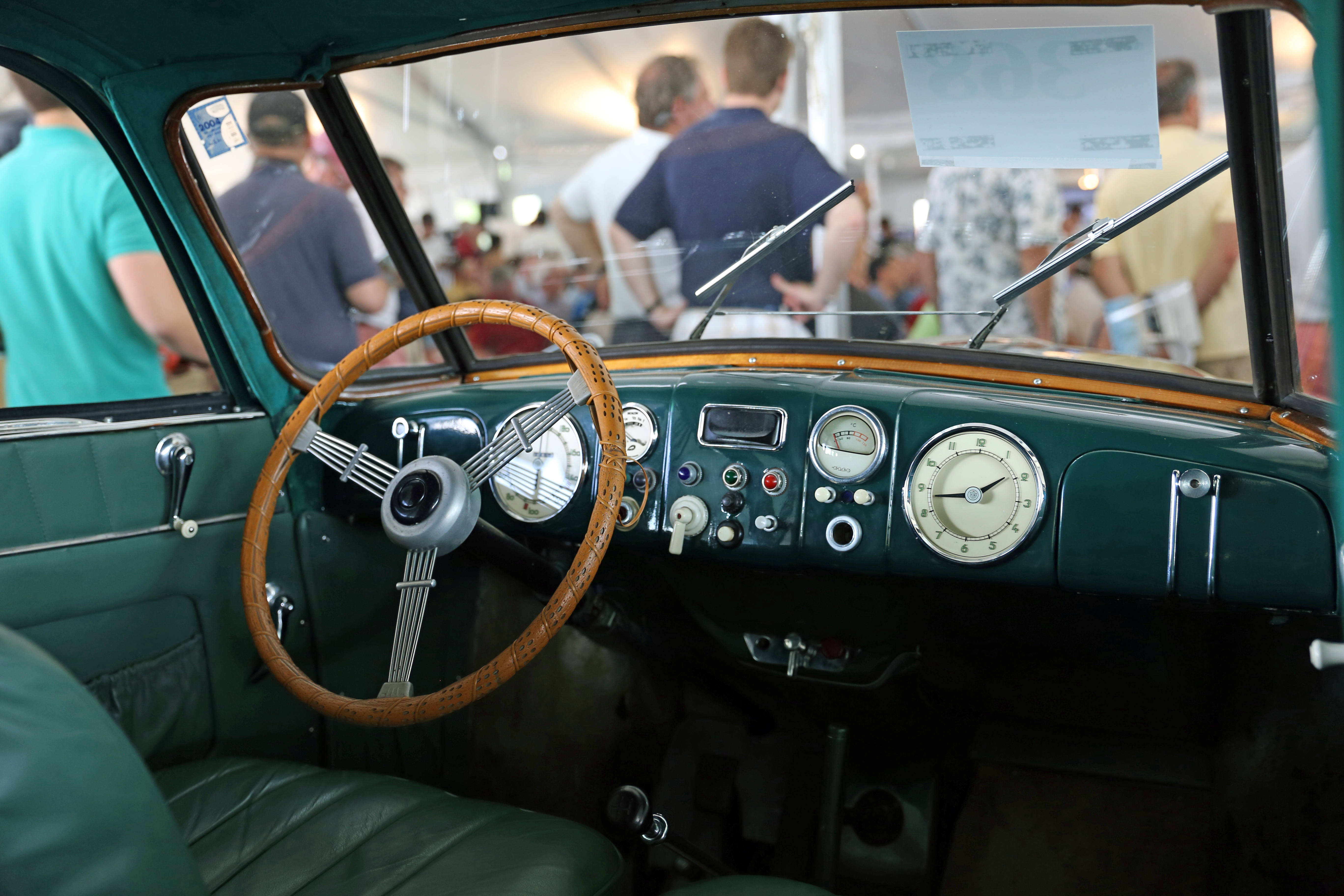 Dashboard of 1947 Tatra T87 at the Bonhams auction attached to the 2013 Greenwich Concours d'Elegance. Chassis number 69324, engine 222233. There are about ten of these in the United States.